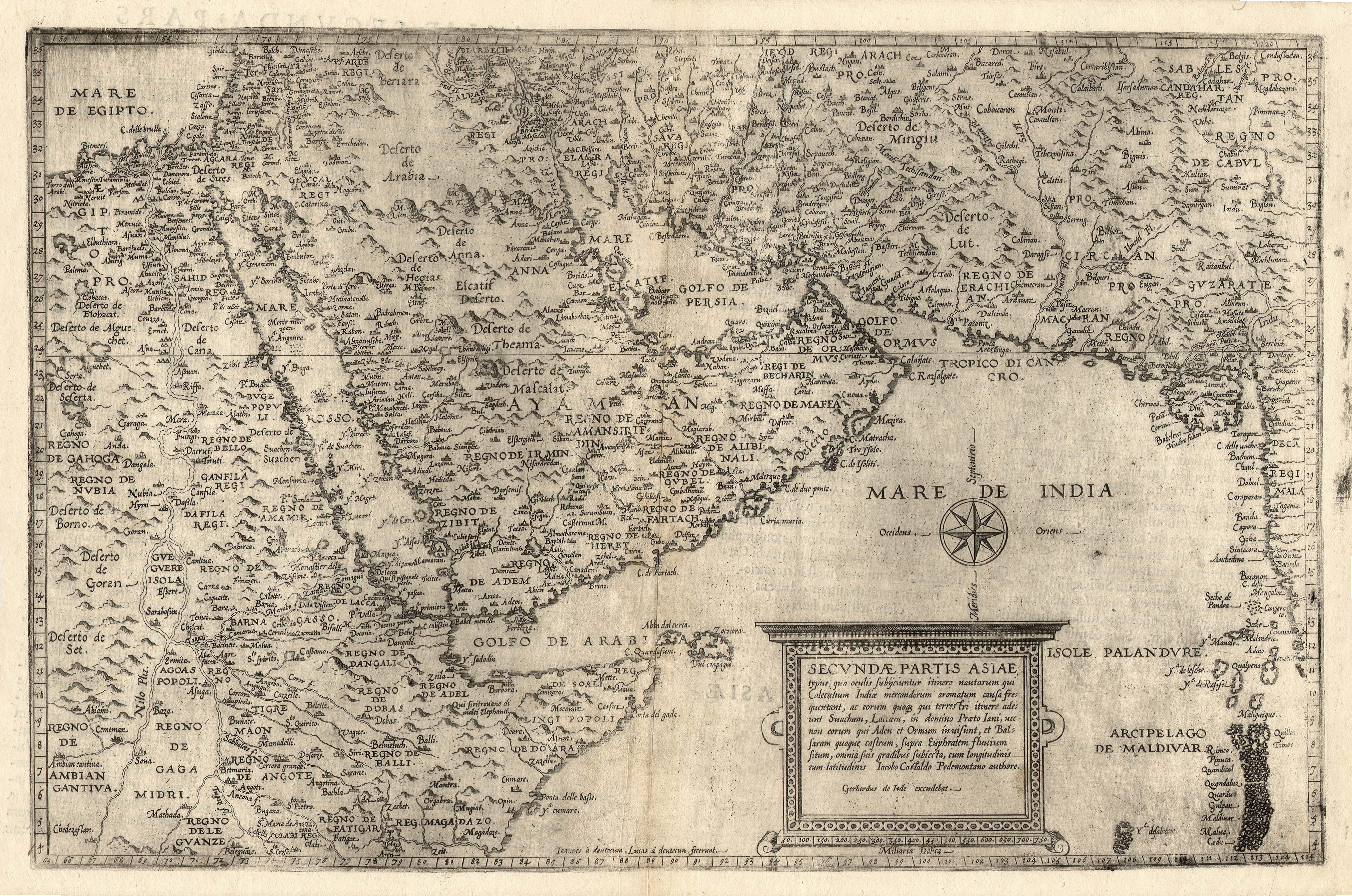 Secunda Partis Asiae - Produced in Antwerp FIRST edition : 1593 Original size : 32.5 x 50.1 cm Produced using copper engraving